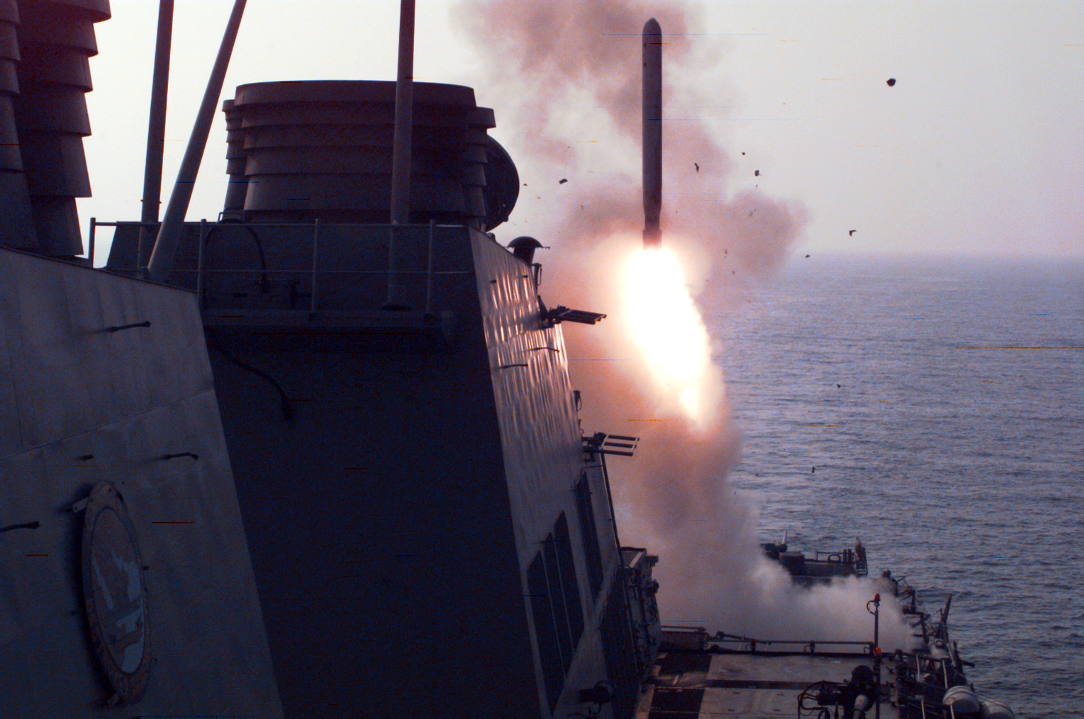 One of eight Tomahawk cruise missiles launches from the stern of the USS Laboon (DDG 58) to attack selected air defense targets in Iraq on Sept. 3, 1996. The U.S. Navy Arliegh Burke class destroyer launched the missiles at 7: 15 a.m. local time as it operated in the Persian Gulf. DoD photo by Petty Officer 1st Class Wayne W. Edwards, U.S. Navy.